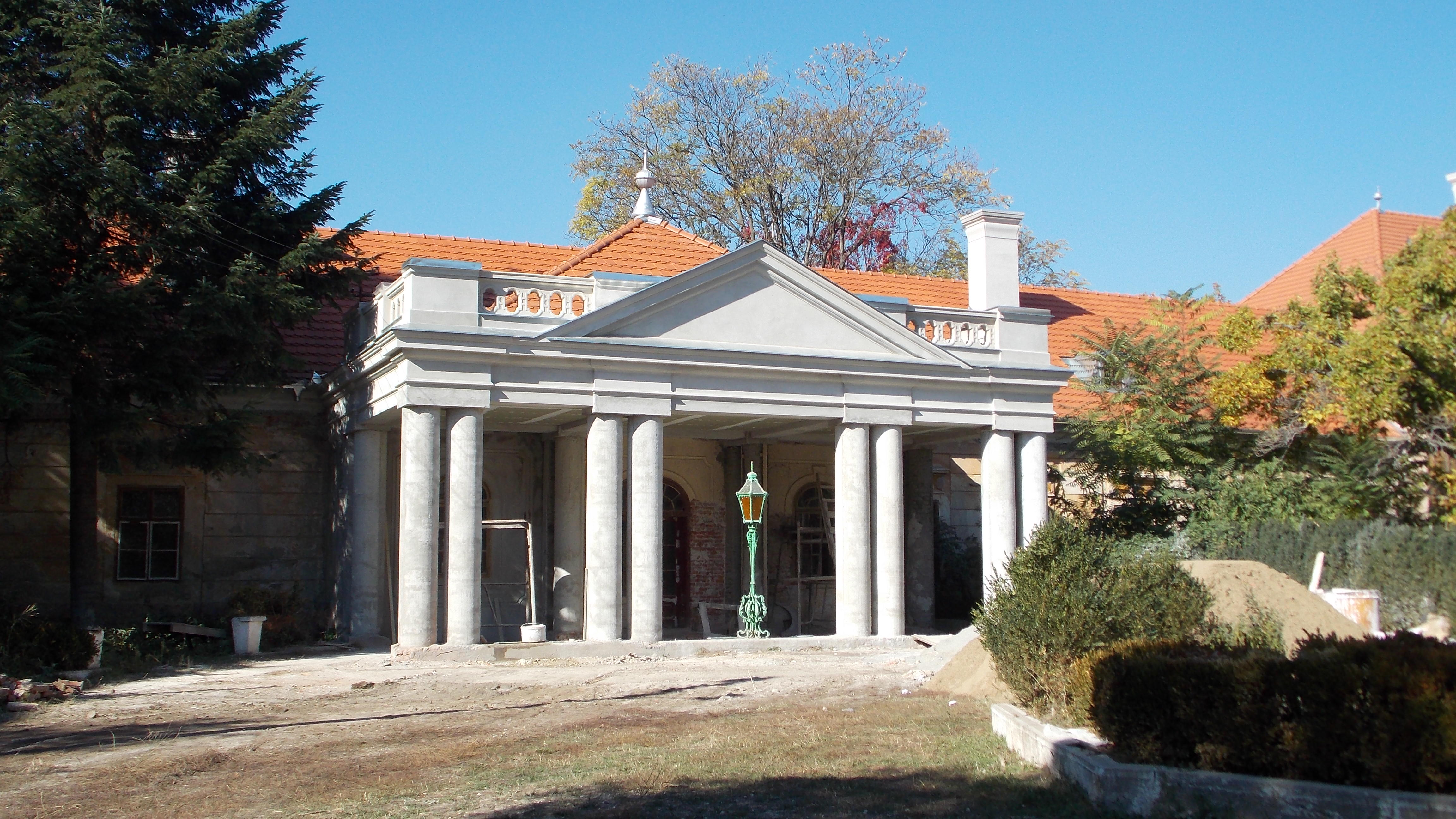 Stubenberg Palace, Sacueni, Bihor county, RomaniaRomână: Palatul Stubenberg, Săcueni, jud. Bihor